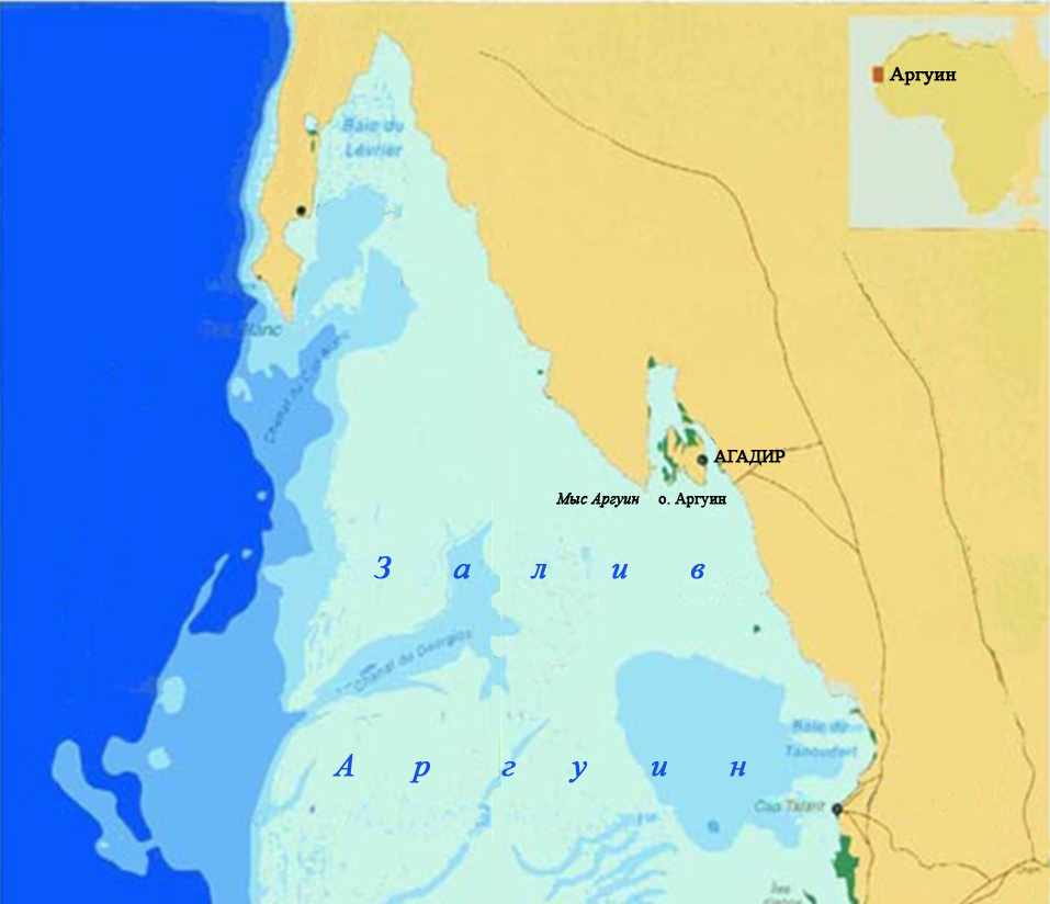 Map of Arguin island and region (russian version)